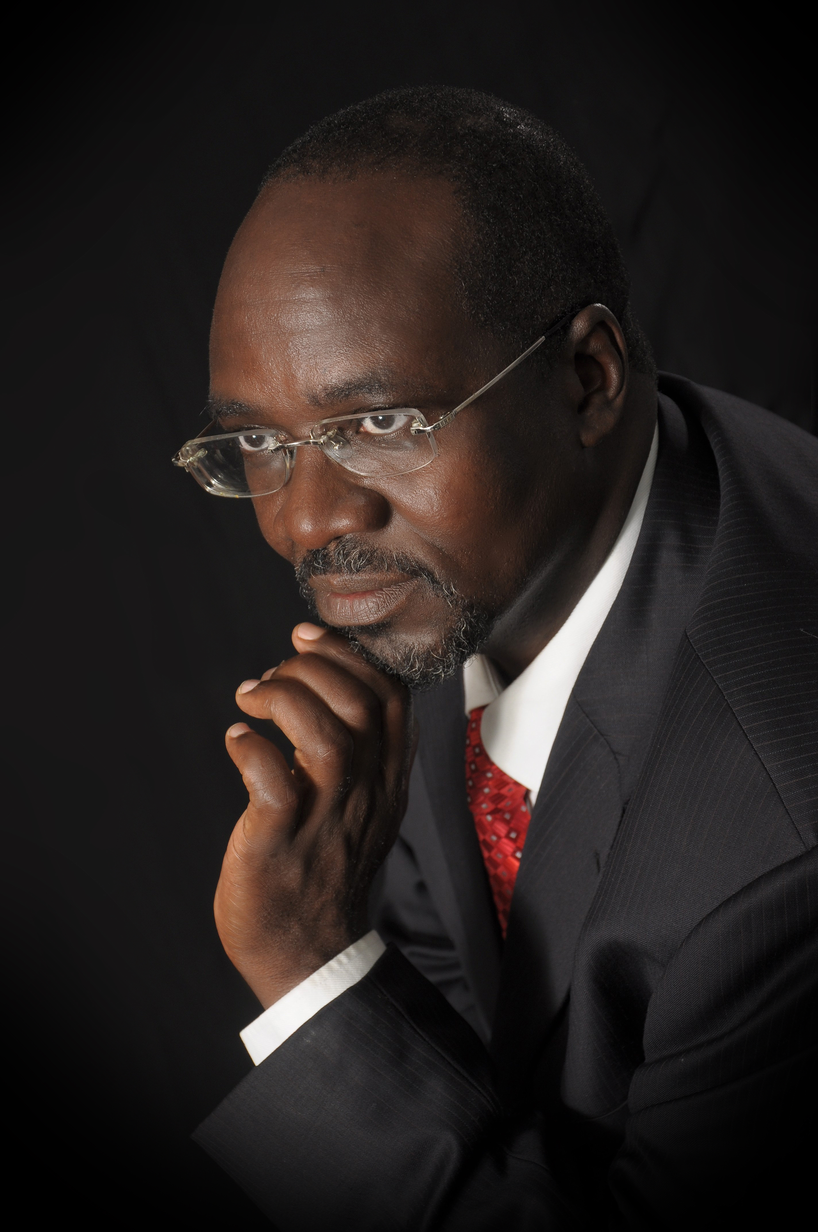 Prof Peter kagwanjs's portrait.